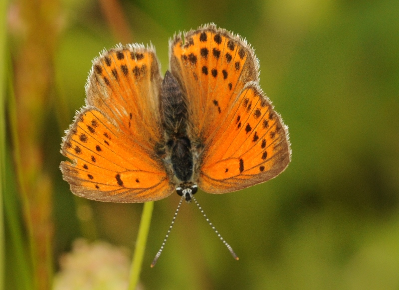 Wing upperside view of a female Turkish Fiery Copper (Lycaena ochimus) butterfly. Erzurum, Turkey. 2100 m.